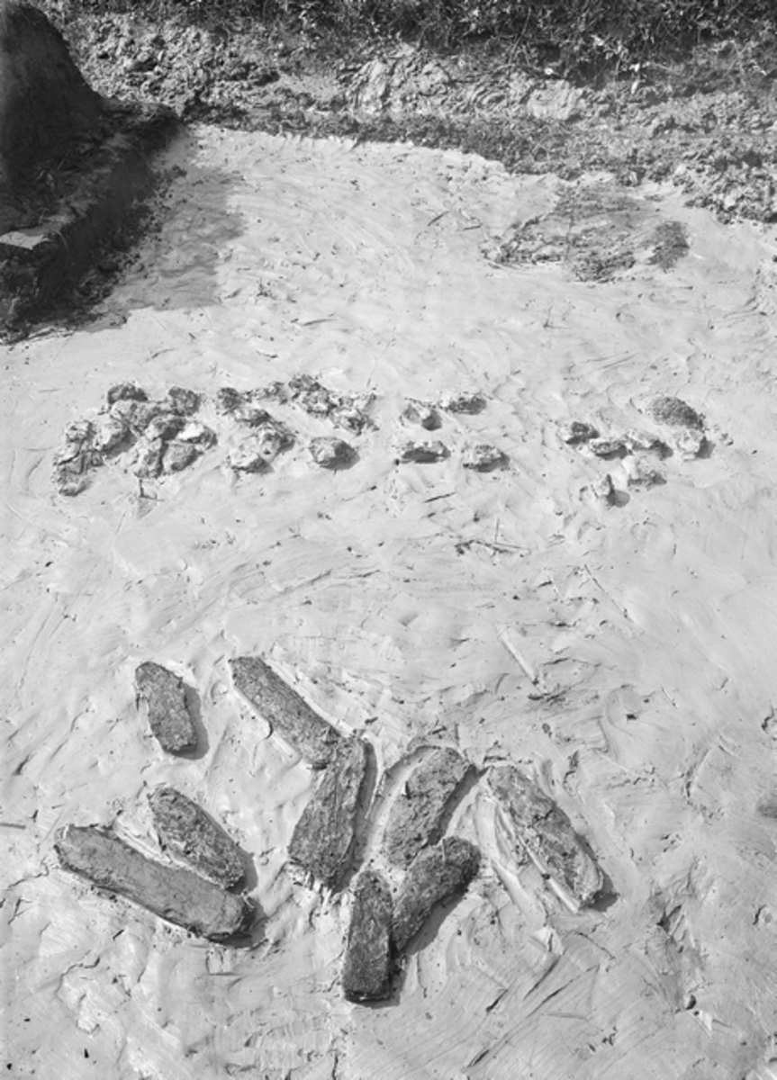 Photography from the excavations of the Antrea Net in 1914 by Sakari Pälsi.